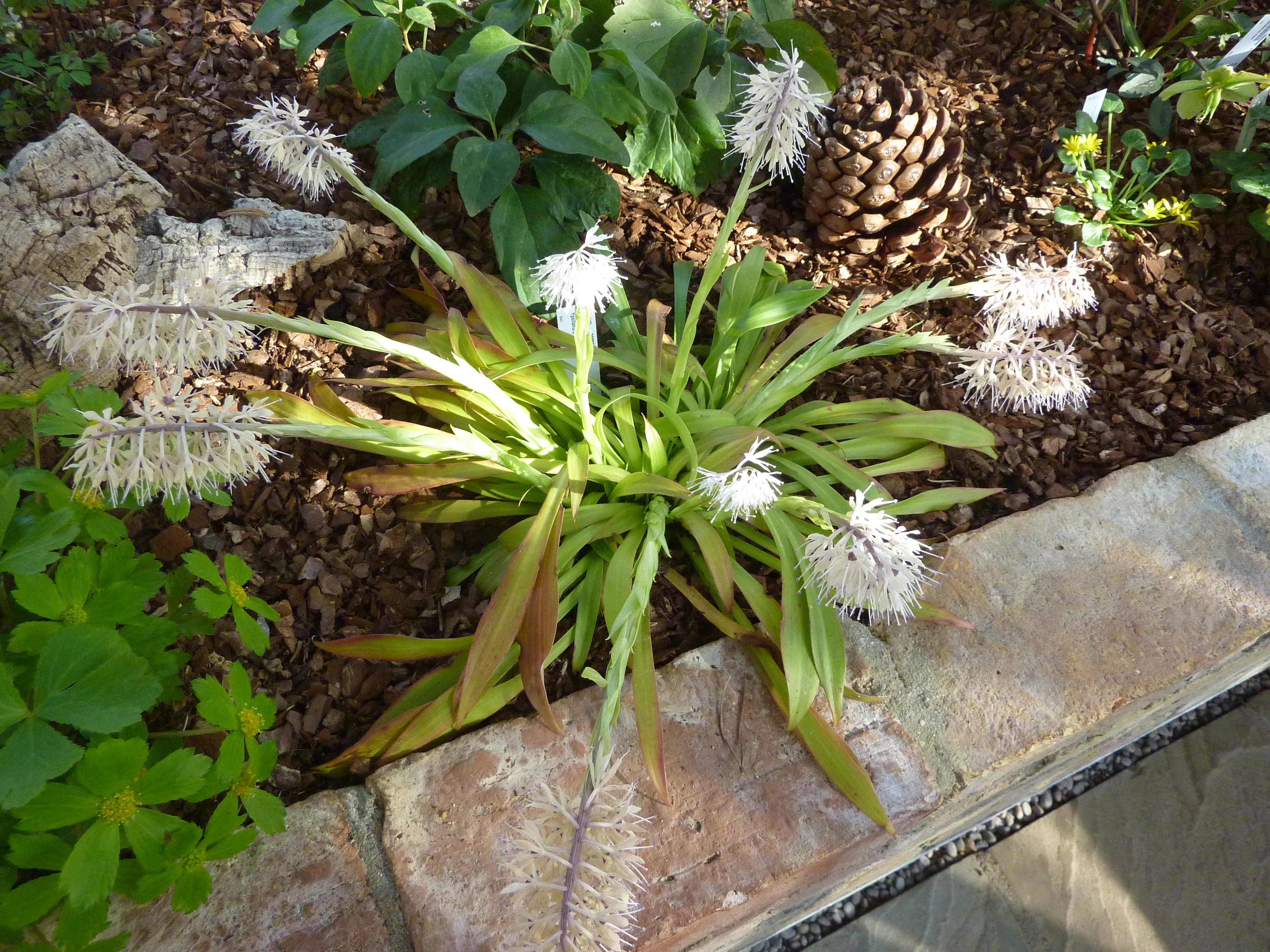 Taken in the Cambridge University Botanic Garden.